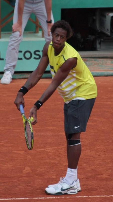 Gaël Monfils at 2009 Roland Garros, Paris, France